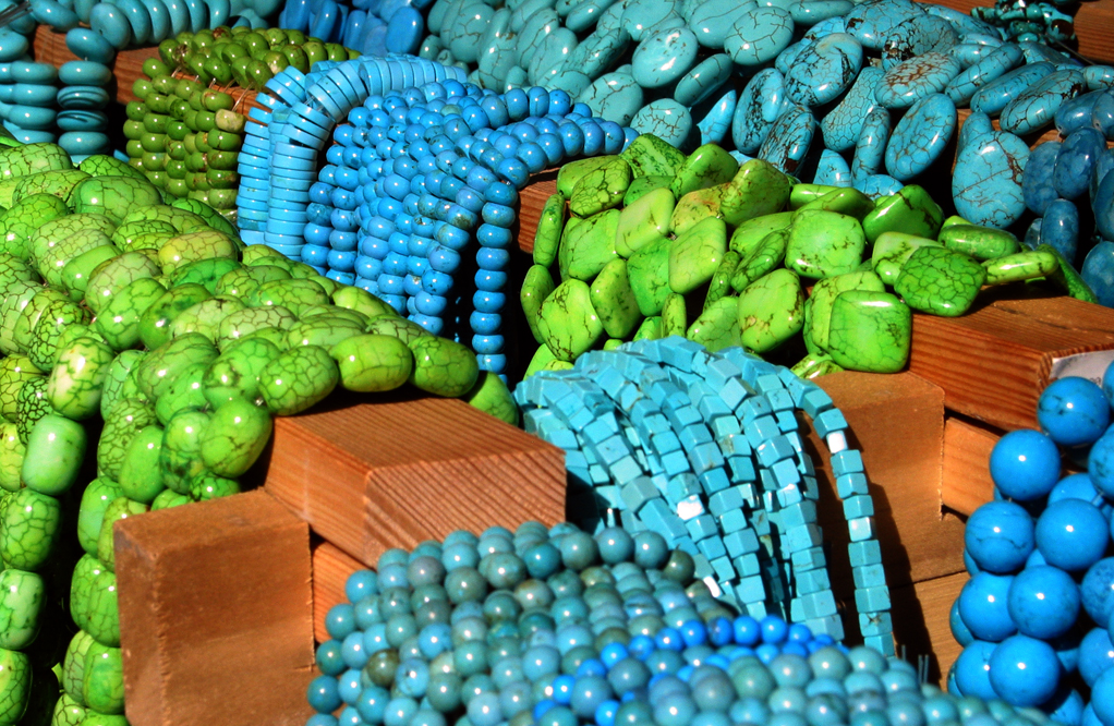 Turquoise - Blue and green necklaces